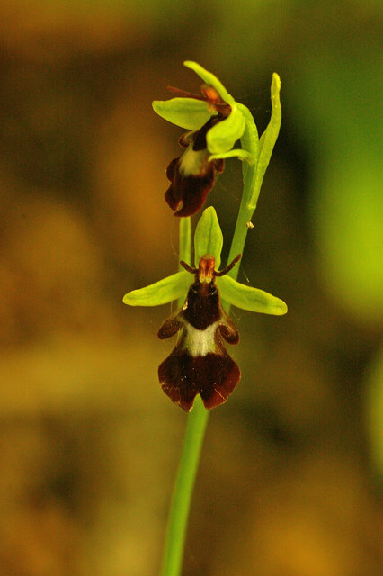 Fly Orchid (Ophrys insectifera). See 1330564. A close up of an individual flower, showing the strong insect resemblance which gives the plant its name. In this case, the mimicry serves a purpose: a combination of its appearance and pheromones produced by the plant dupes male digger wasps of the genus Argogorytes into thinking that the flowers are females, and the resulting attempt at copulation results in the pollen being collected - if followed by a visit to another plant, this may result in pollination.